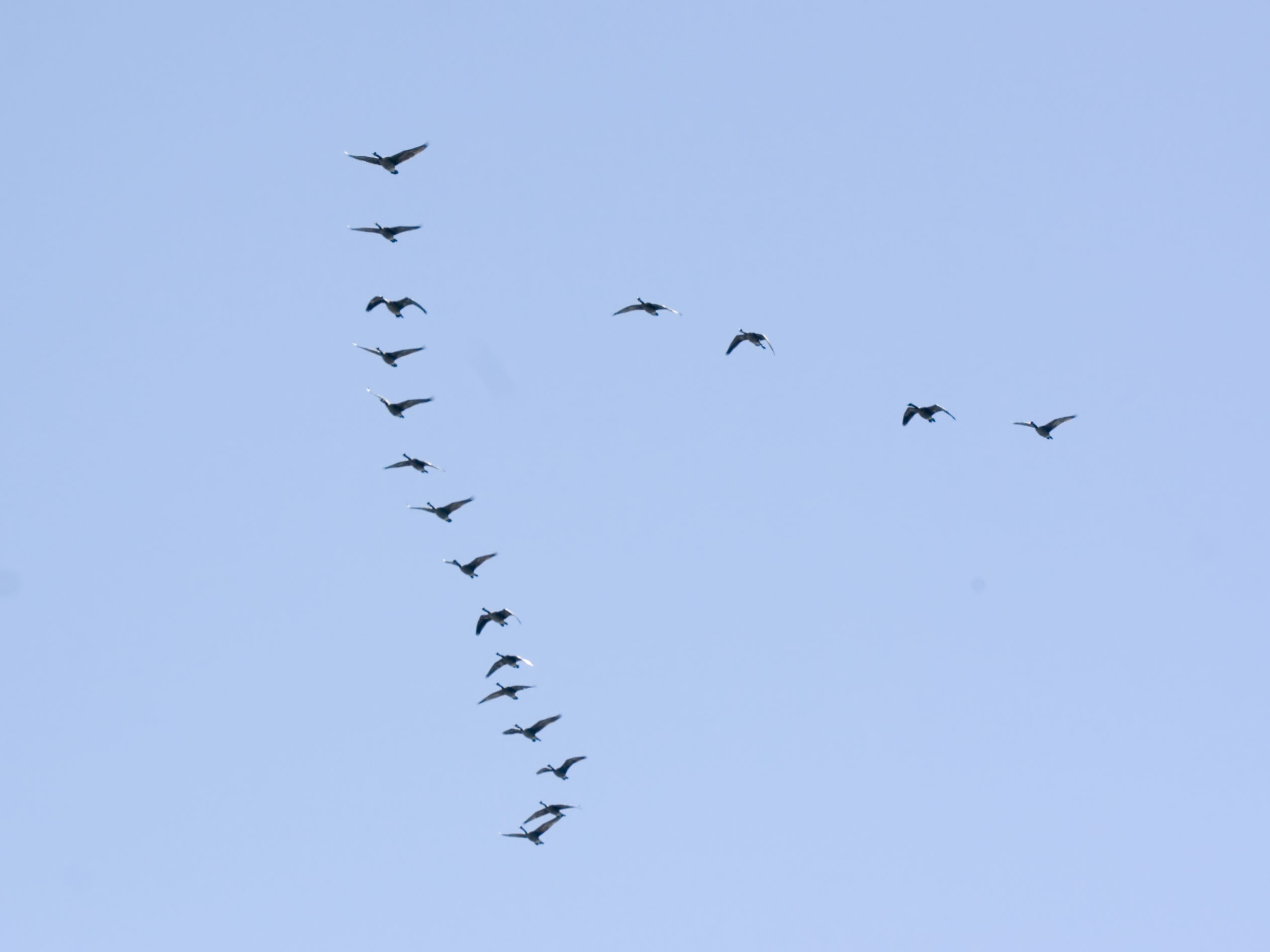 Canada Geese flying in a flock above Lake Michigan